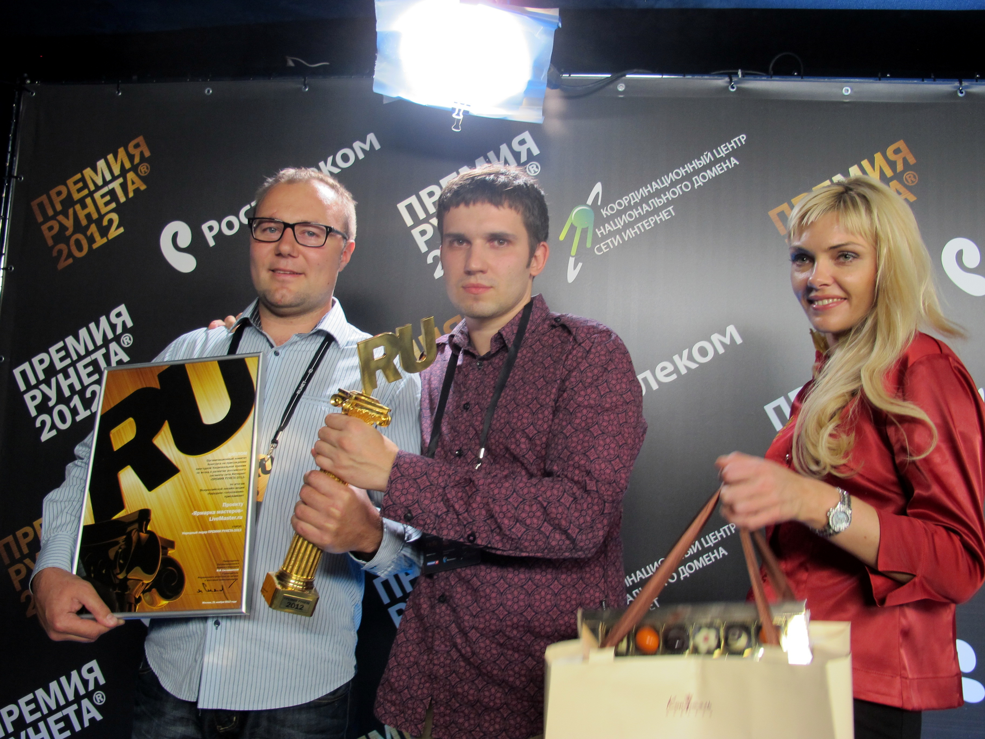 Runet Prize 2012 at the Arena Club in Moscow. Livemaster.ru - Denis Kochergin and Sergey Cherkasov, project's co-founders.